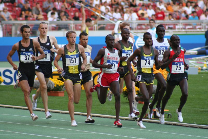 World athletics final Stuttgart 2007 1500m